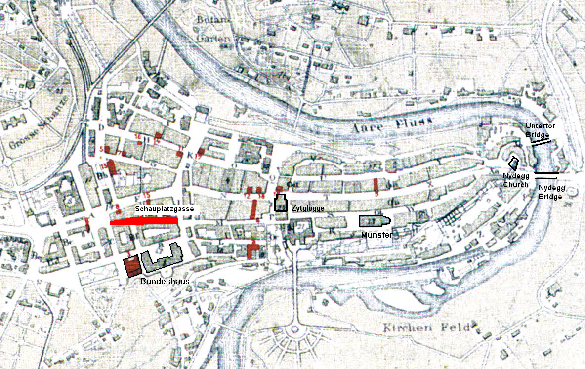 City plan of Bern, 1882. Scanned from BERN: Eine Stadt vor 100 Jahren, Bilder und Berichte; Peter Lauenberger, Emil Erne; München 1997; p. 7. Originally from Bern und seine Umgebungen, C.H. Mann, 1882 in the Alpines Museum of Bern. Due to the age of the image, it must be assumed that the author has been dead for more than 70 years. Copyright protection has therefore lapsed under Swiss copyright law (Art. 29 par. 3 URG).